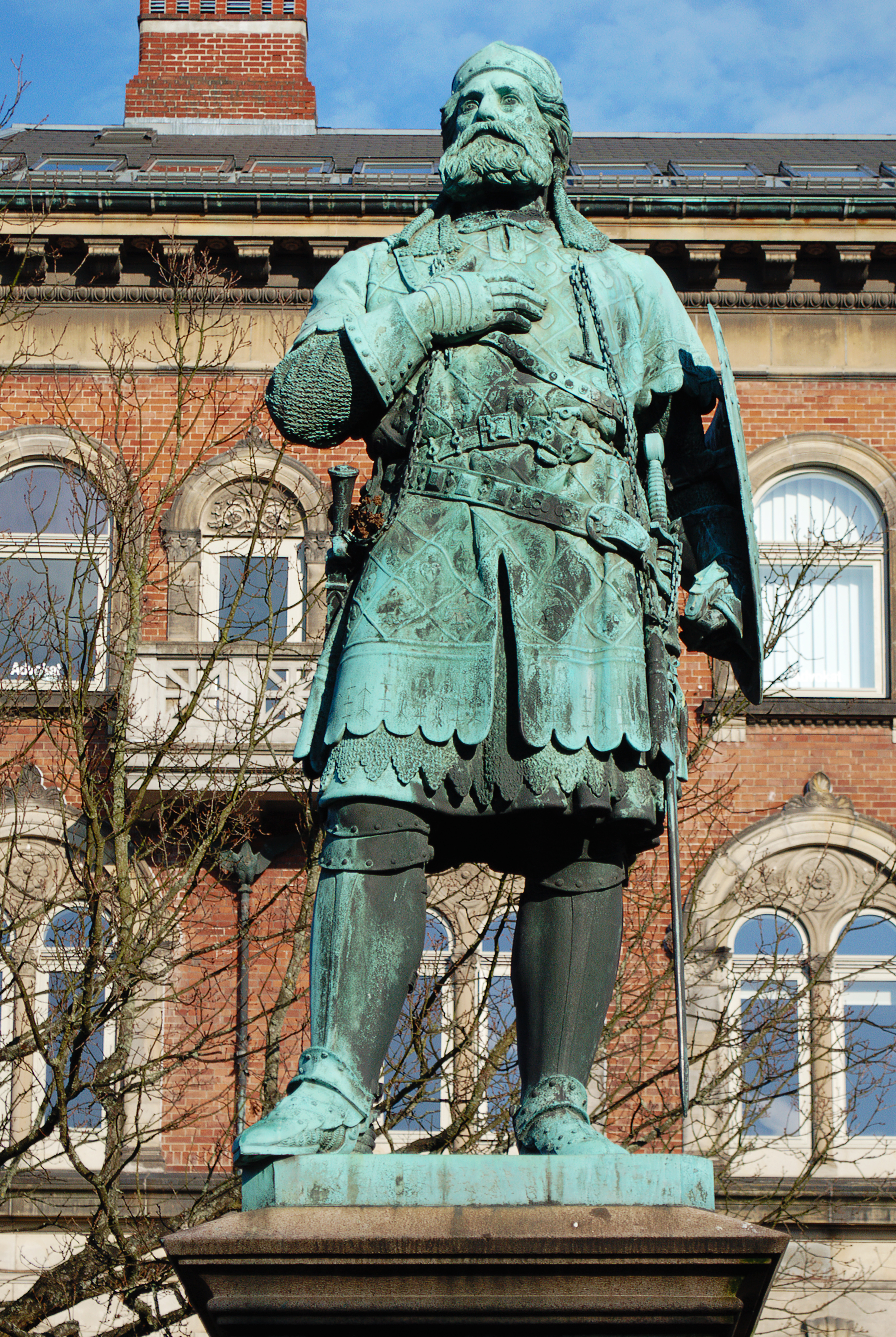 Upper part of the statue of Niels Ebbesen in front of the Old Town Hall in Randers, Denmark.